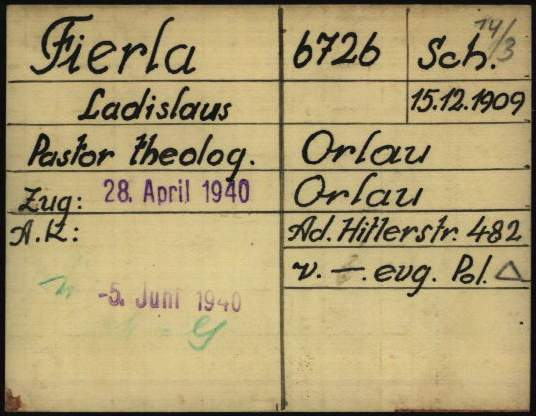 Registration card of Władysław Fierla as a prisoner at Dachau Nazi Concentration Camp.